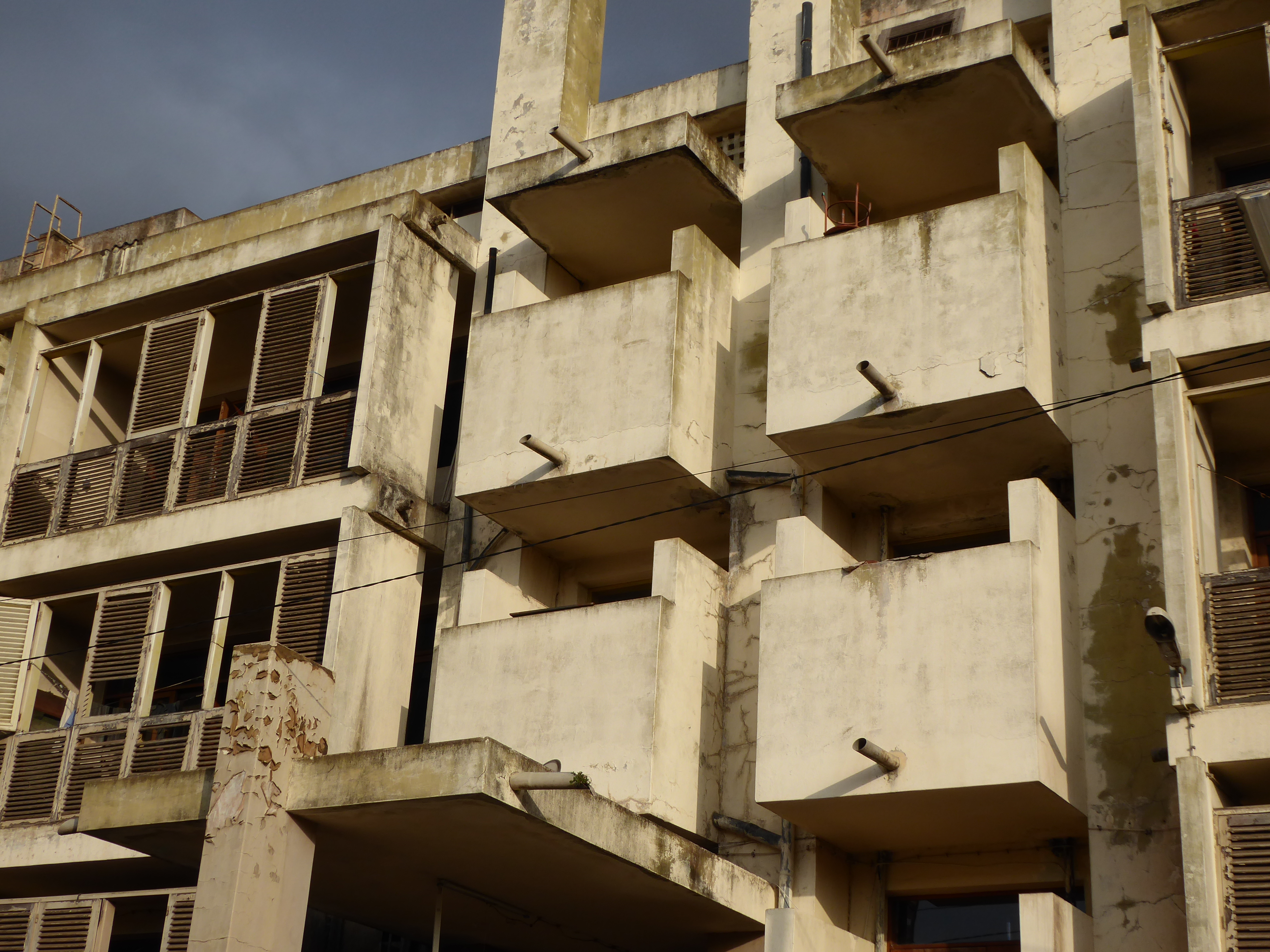 Students' house Khovo Lar, Rua Henri Junod, Maputo, Mozambique